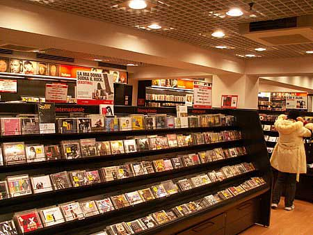 Private photo that I took myself.